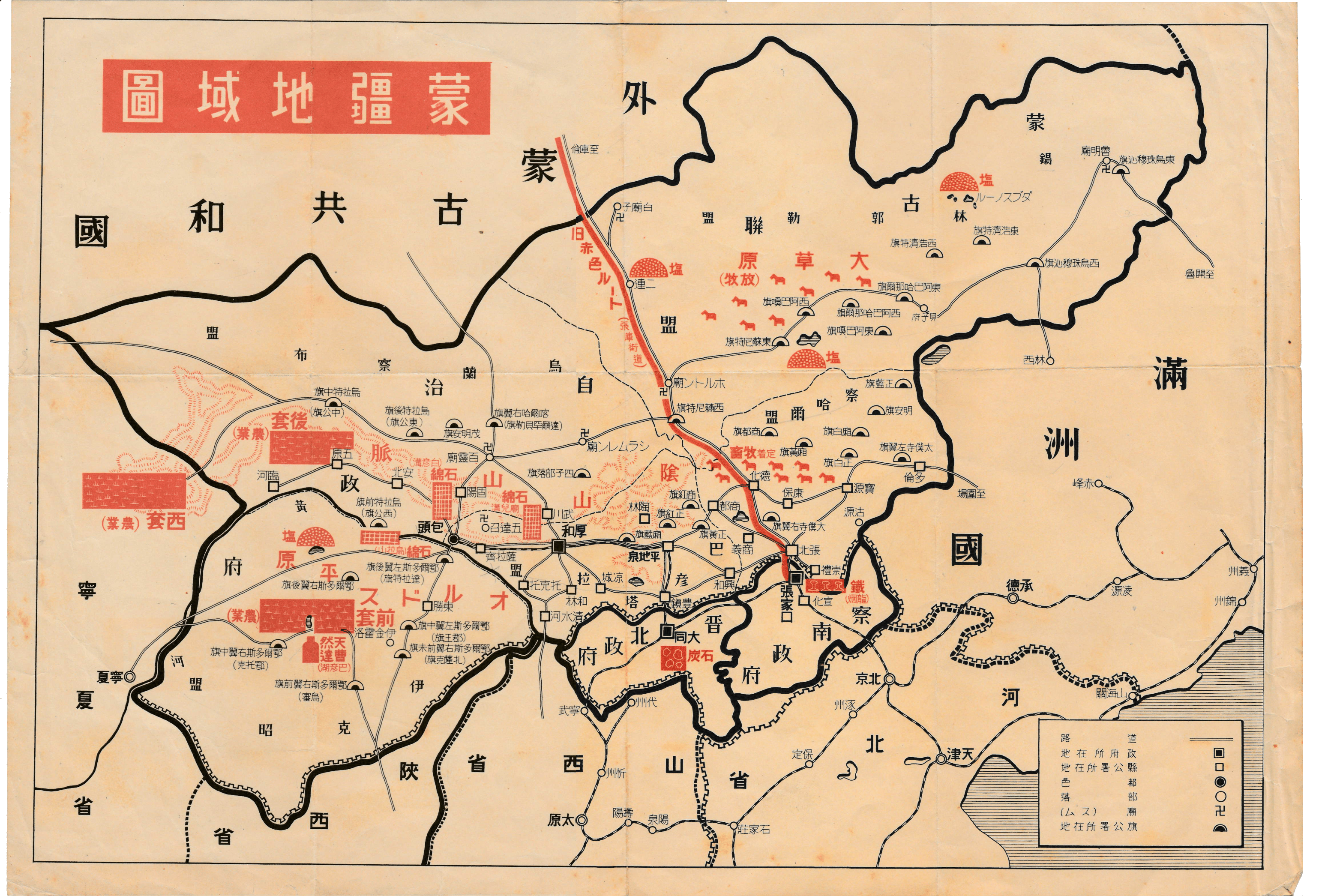 A map of Mengjiang, North Shanxi, and South Chahar, all areas occupied by the Imperial Japanese forces preceding and during the Second Sino-Japanese War. Much of the map is in Chinese, but some is in Japanese also. Nearly (if not all) text is right-to-left.